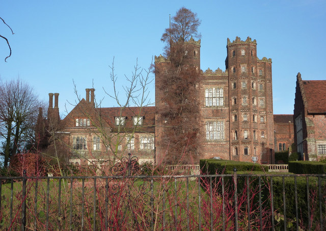 Layer Marney Tower The Tudor palace has a particularly impressive gatehouse tower.